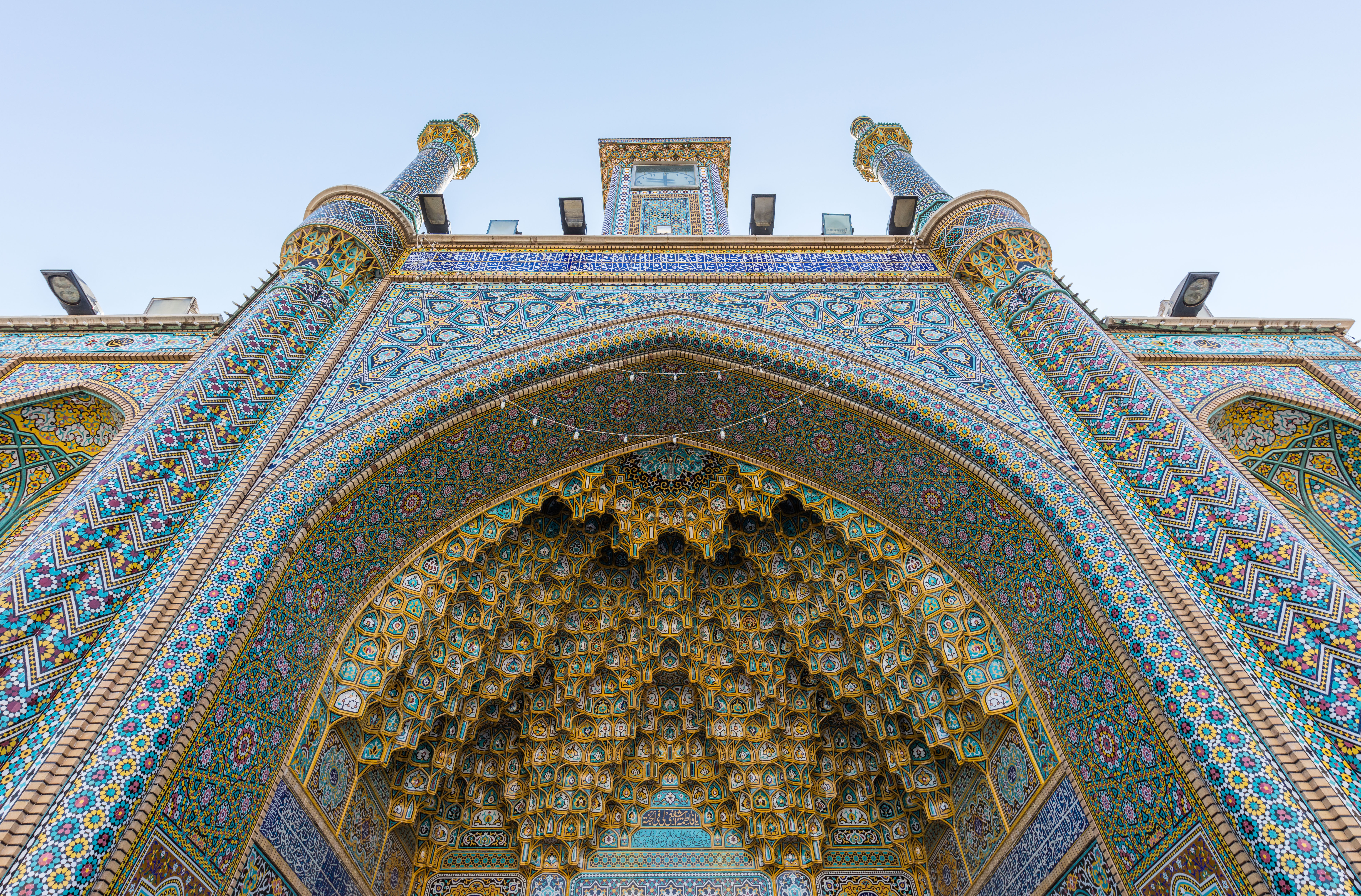 Bottom view of the iwan at the main entrance of Fatima Masumeh Shrine, Qom, Iran. The burial site dates from beginning of the 17th century in times of shah Abbas the Great. Qom is a very crowded pilgrimage location and is considered by Shia Muslims to be the second most sacred city in Iran after Mashhad.